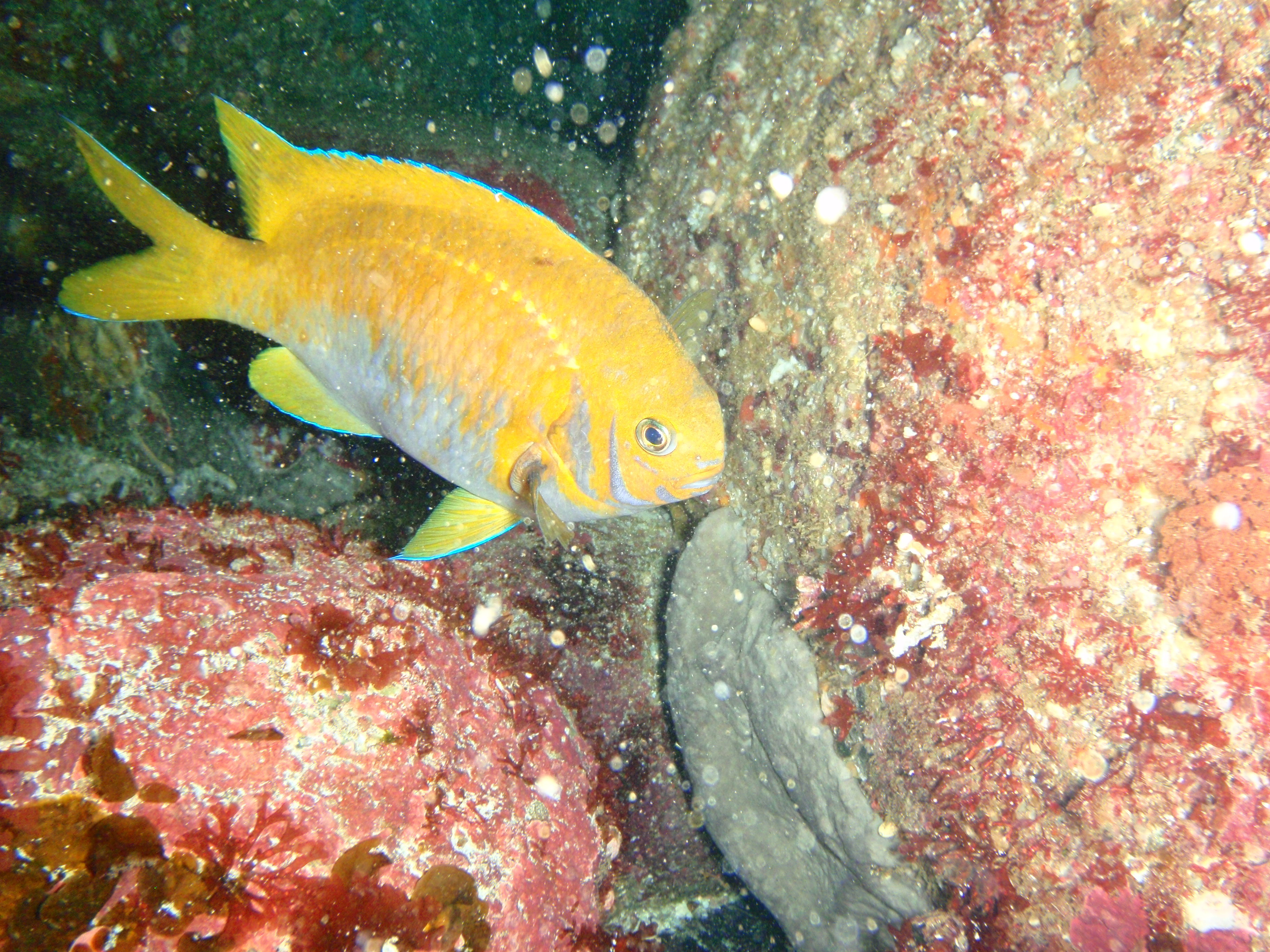 Victorian scalyfin Parma victoriae at Daw Island lagoon western entrance, Western Australia